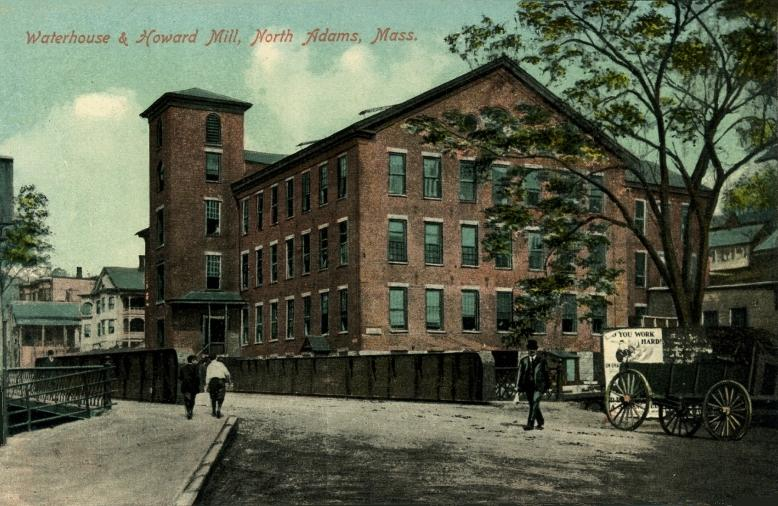 Waterhouse & Howard Mill, North Adams, MA; from a c. 1908 postcard.